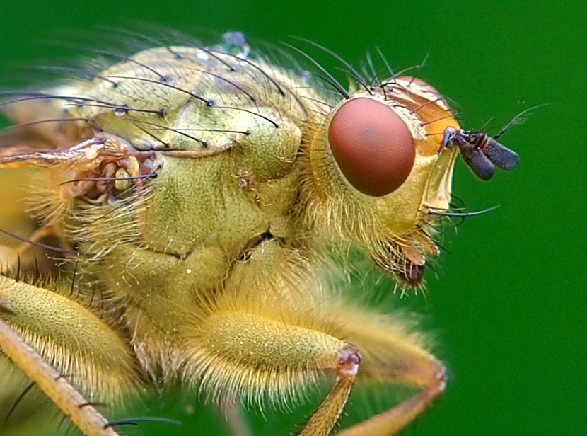 Scatophaga stercoraria detail macro 1:1